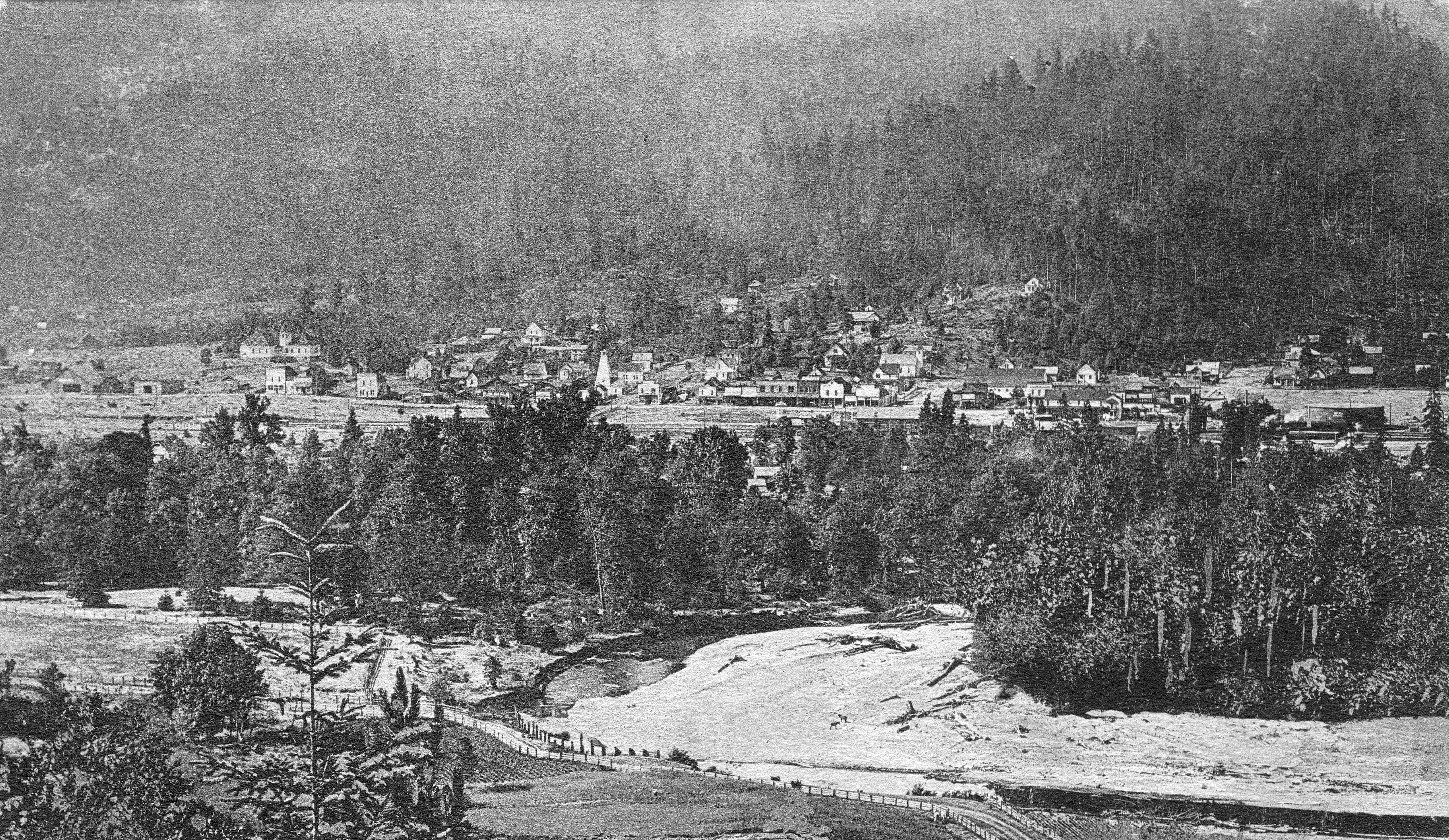 Original Collection: Gerald W. Williams Collection You can find this image by searching for the item number by clicking here. Want more? You can find more digital resources online. We're happy for you to share this digital image within the spirit of The Commons; however, certain restrictions on high quality reproductions of the original physical version may apply. To read more about what “no known restrictions” means, please visit the Special Collections & Archives website, or contact staff at the OSU Special Collections & Archives Research Center for details.